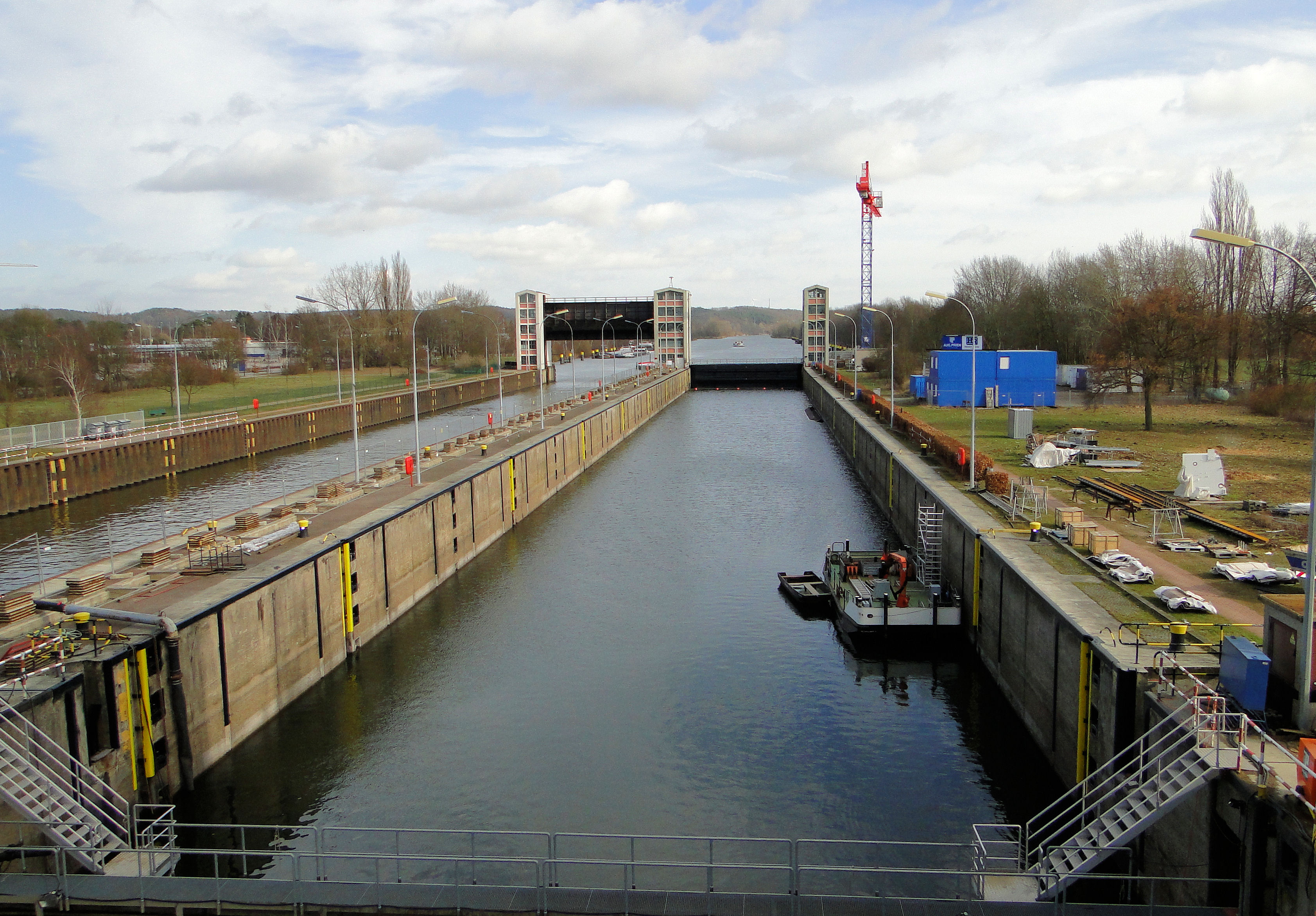 Sluice in Geesthacht, disctrict Herzogtum Lauenburg, Schleswig-Holstein, Germany